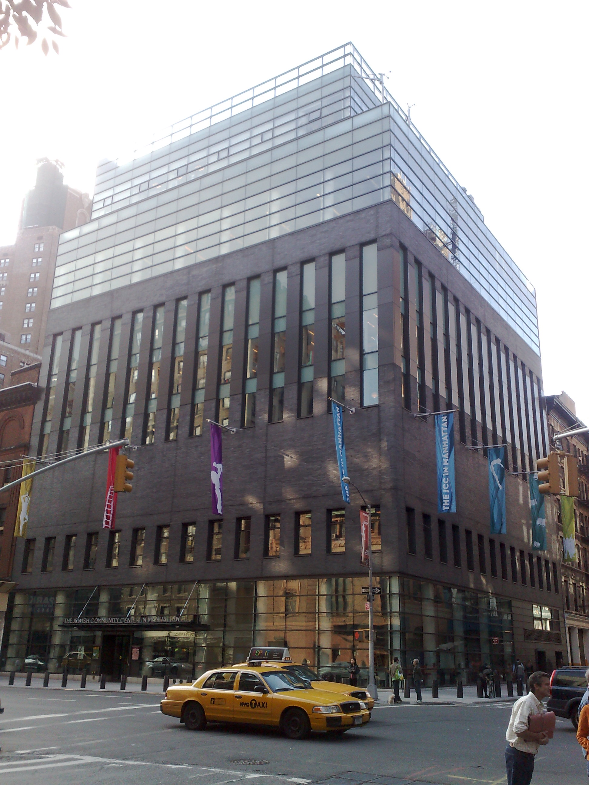 This photo is of Wikis Take Manhattan goal code A21, Jewish Community Center in Manhattan.